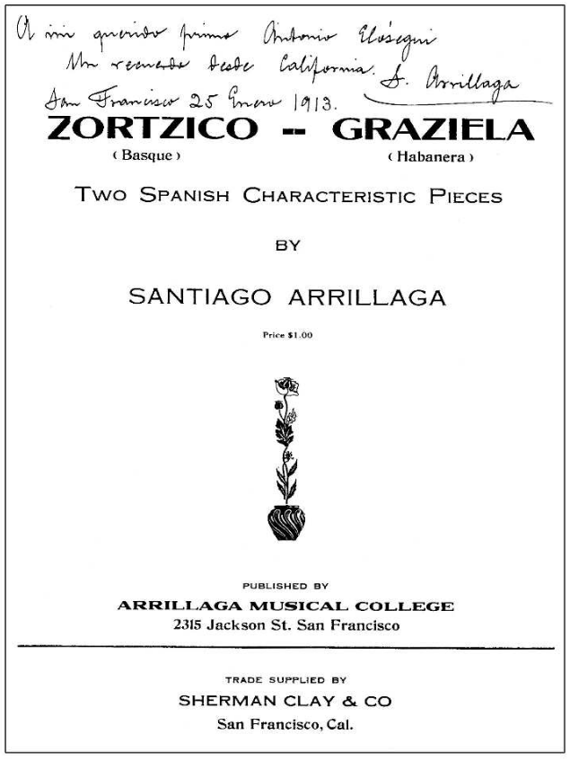 Compositions by Santiago Arrillaga (Zortzico, Basque song; and Graziela, Habanera) published by the Arrillaga Musical College (San Francisco, California) and signed by S. Arillaga himself in 1913.